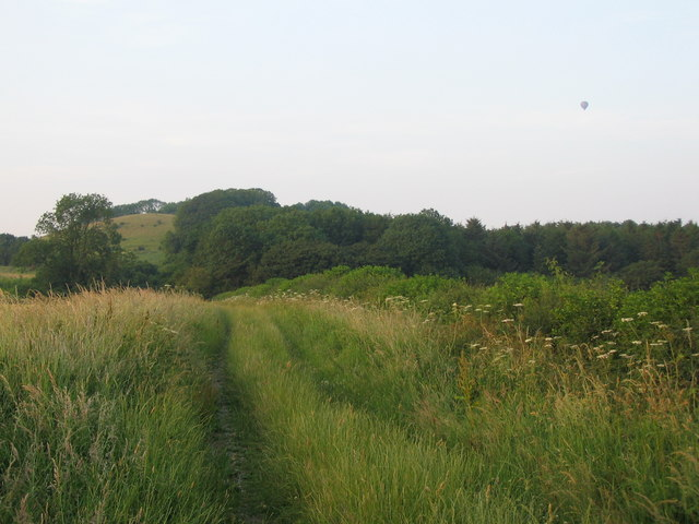 Zeals Knoll, near Mere in Wiltshire, England. A view looking northeast along the track to Zeals Knoll, with Nor Wood on the right. Subject location: grid reference ST796332 Photographer location: grid reference ST794330